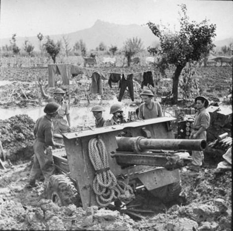 A 25 pounder gun of a British Artillery Field Regiment in a waterlogged position one mile N.E. of Scorticata, 1944.Heavy and continuous rain, resulting in swollen rivers and waterlogged roads, is still holding up the advance in Italy. But Indian troops in the Adriatic sector of the 8th Army have pushed on to capture the village of San Donato, about 4 miles west of Scorticata across the Rubicon.